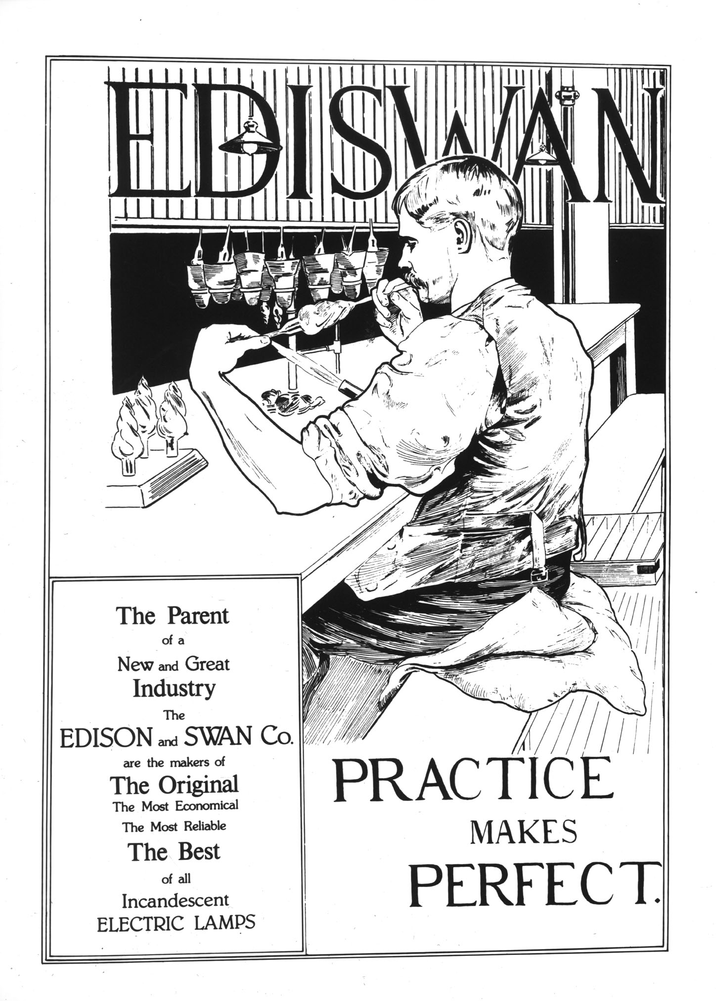 This poster is from the Swan Collection of Tyne & Wear Museums, held at the Discovery Museum in Newcastle upon Tyne. Sir Joseph Wilson Swan was a British Physicist, Chemist and Inventor. Swan lived at Underhill, on Kells Lane North in Low Fell, Gateshead. It was here that he conducted most of his experiments in the large conservatory. His investigations in electro-chemistry led to the construction of a motor electric meter, an electric fire-damp detector, a miners' electric safety lamp. Most importantly, Swan was also a pioneer in photographic procedures such as carbon printing. It was Swan's demonstration of the light bulb at a lecture in Newcastle upon Tyne on 18 December 1878, before its later development by the American Thomas Edison that he is most famous for. Swan and Edison later collaborated in their work with the incandescent light bulb in 1883, when they founded the Edison & Swan United Electric Light Company, otherwise known as 'Ediswan.' Many items held at Tyne & Wear Archives & Museums relating to Joseph Swan offer an amazing insight in to his work as an inventor and his place in the History of Scientific progression. This set offers a small selection from these collections. This set has been produced in support of the British Science Festival 2013, held in Newcastle upon Tyne. You can find more information on the Festival #// (Copyright) We're happy for you to share these digital images within the spirit of The Commons. Please cite 'Tyne & Wear Archives & Museums' when reusing. Certain restrictions on high quality reproductions and commercial use of the original physical version apply though; if you're unsure please